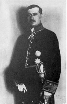 Jovan Ducic as ambassador